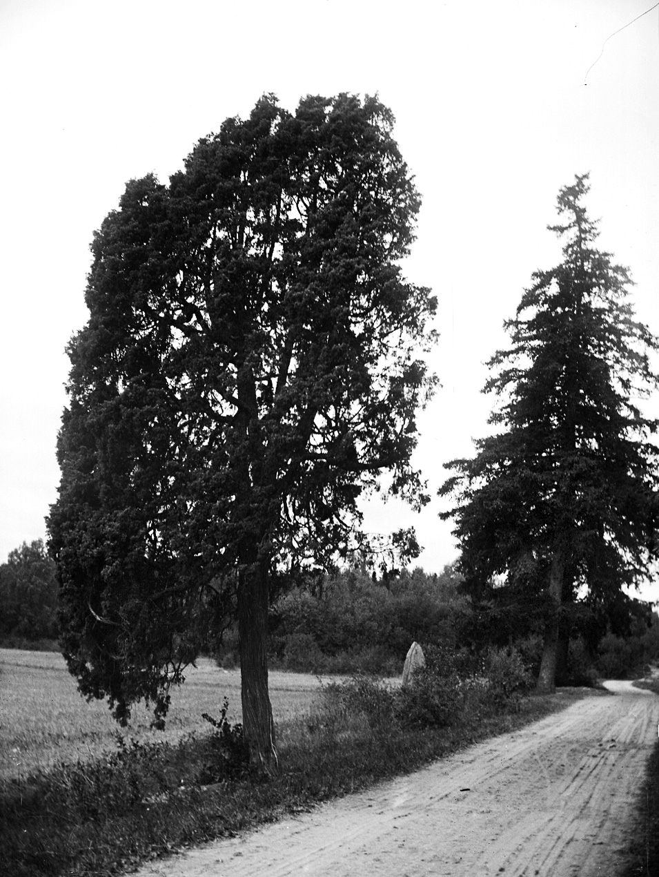 Runestone U 899 near the road in Vårdsätra, Uppsala, Sweden 1911.